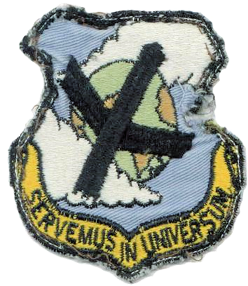 Emblem of the 100th Air Refueling Squadron (SAC) (1950s)